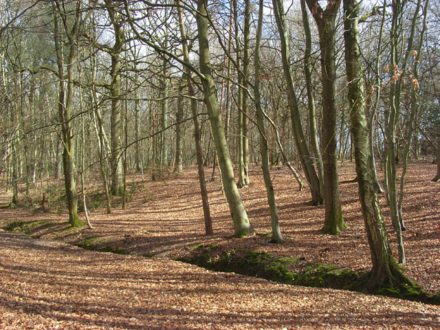 Woodland, Inkpen Common A stream in an area of mature deciduous woodland near the south of the common. Outside this area it is mostly scrub with extensive birch and gorse.